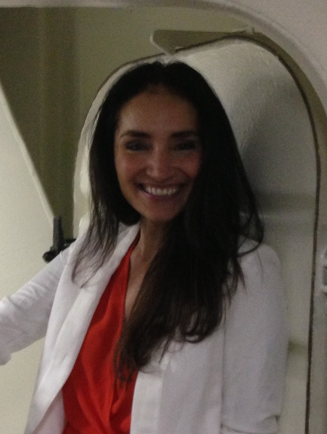 Photo of Spanish Violinist Eva León